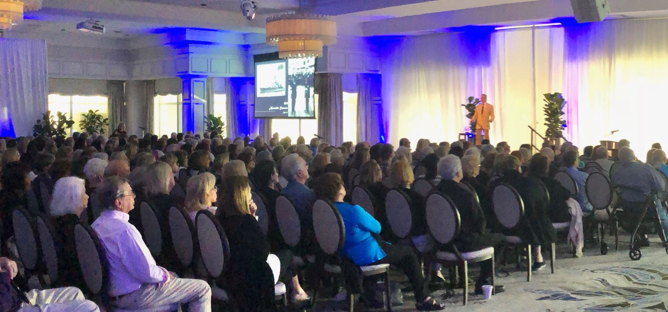 This is René Silvin giving one of his presentations to a large crowd at the Polo Club of Boca Raton.